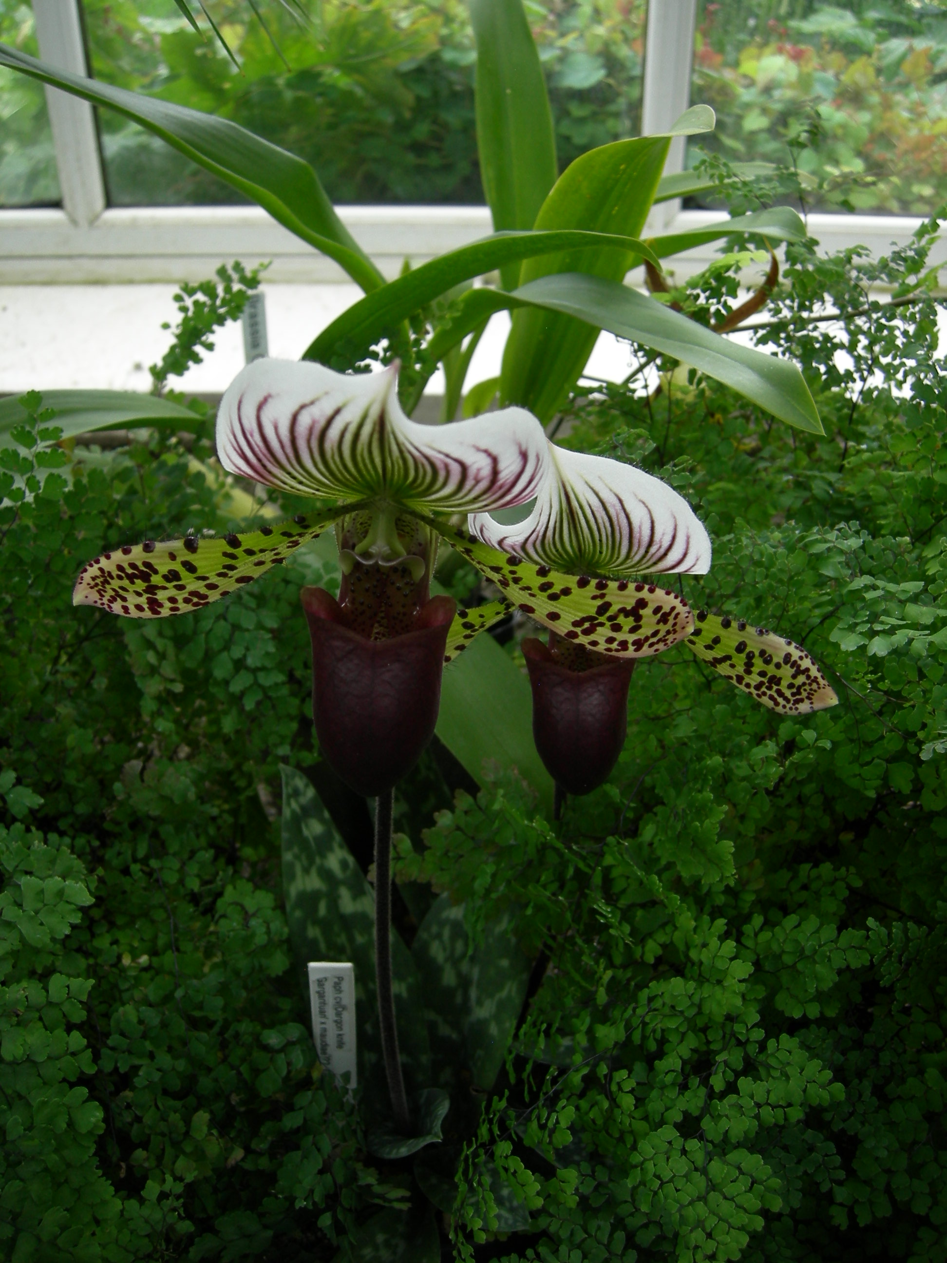 Paphiopedilum Cultivar (orchid), Volunteer Park Conservatory, Volunteer Park, Seattle, Washington.